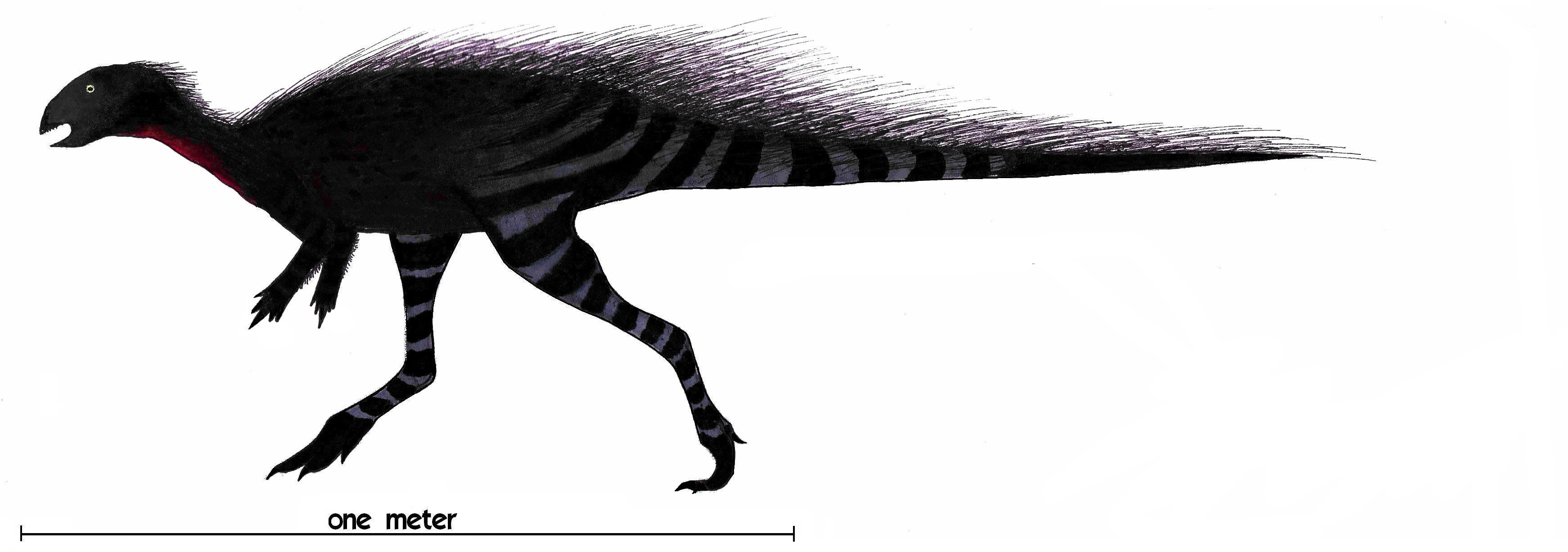 Life restoration of Othnielosaurus